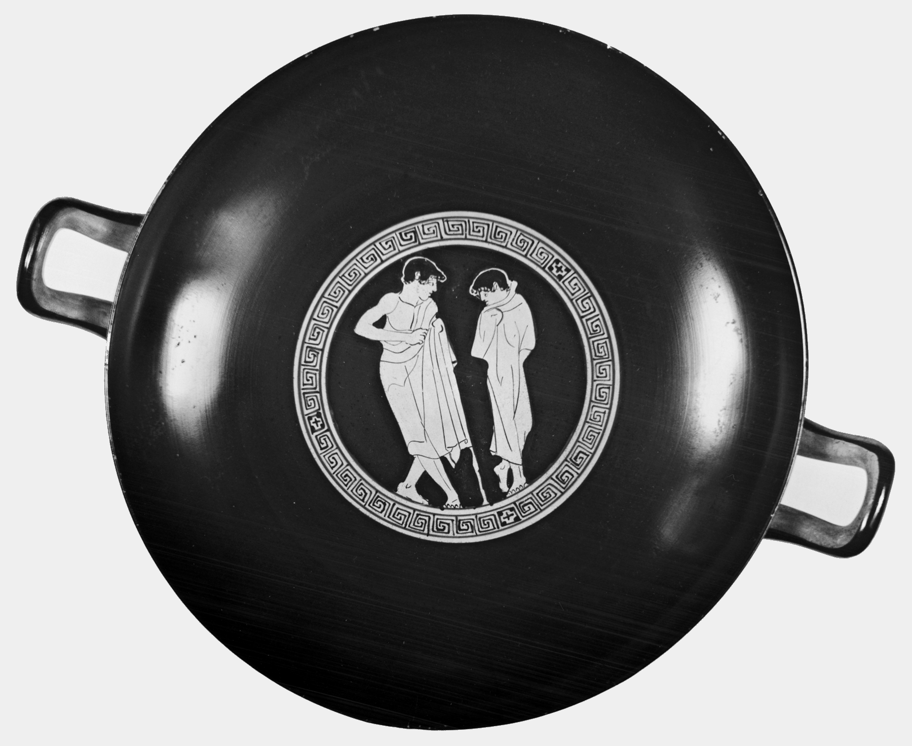 This red-figure kylix depicts a youth and a boy in the tondo. A youth stands nearly frontally on the left, legs crossed, head turned in profile to the right. He leans on a staff that he holds with his left hand; his right arm is bent across his chest. A boy stands nearly frontally on the right, his legs also crossed. He looks left toward the youth, as if involved in conversation. Both wear mantles. The handles are placed off the central axis.